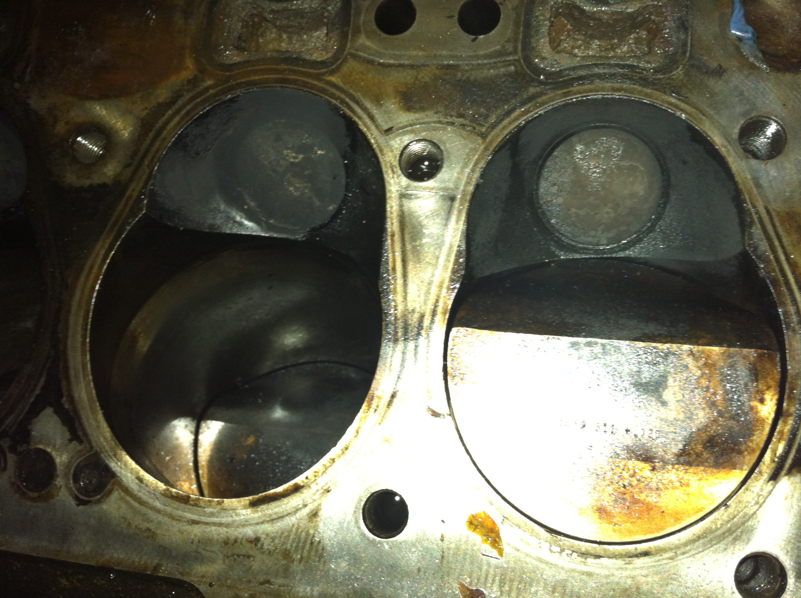 This is a photo of two cylinders in a Rover 3-Litre IOE engine. With the Cylinder head removed, you can see the unusual combustion chamber and valve layout.